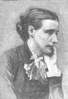 Black and white portrait of American author Elizabeth Stuart Phelps Ward (d. 1911). From Literary Pilgrimages in New England to the Homes of Famous Makers of American Literature... by Edwin M. Bacon. New York: Silver, Burdett and Company, 1902: p. 15.